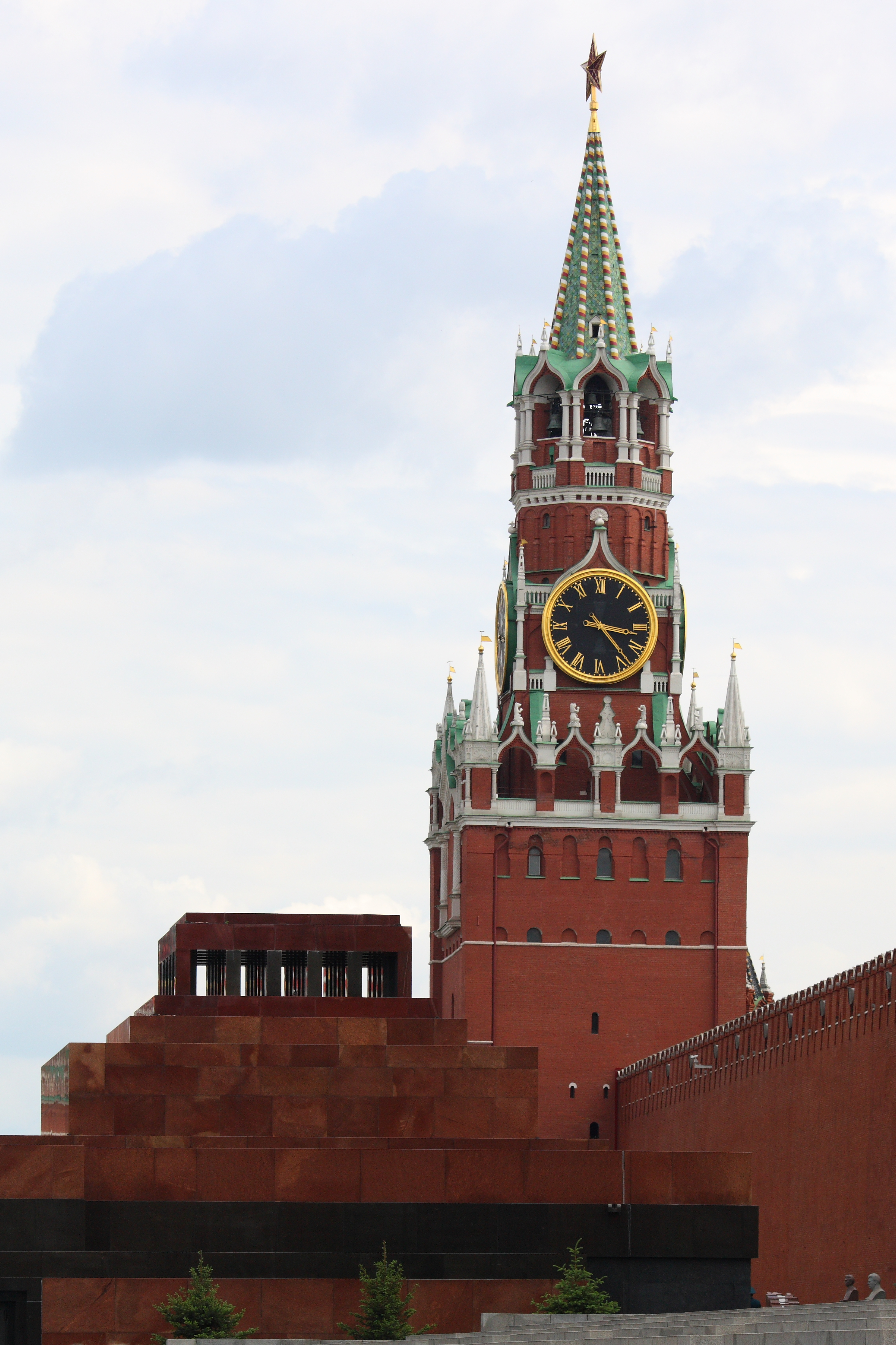 The tower guards the eternal sleep of Lenin in Mausoleum.